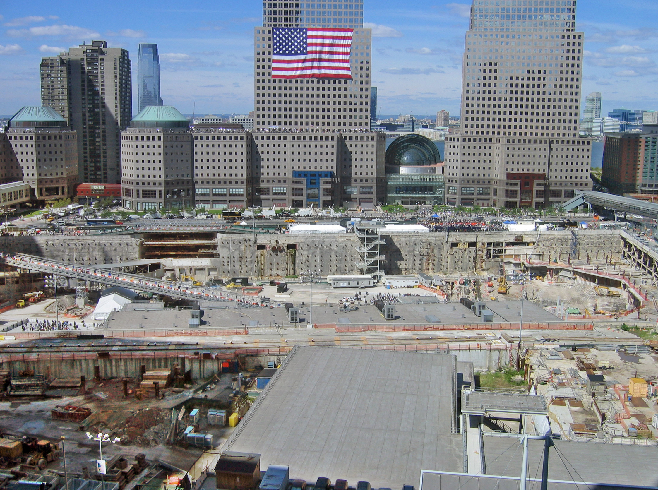 World Trade Center site, including (on the right) early stages of construction and foundation work for the Freedom Tower which were paused for the 5th anniversary of the 9/11 attacks.